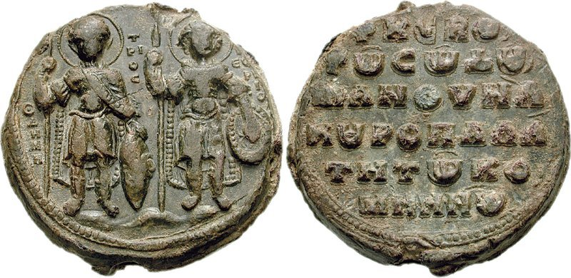 Manuel Comnenus. Curiopalates, circa late 11th-early 12th century. PB Seal (31mm, 32.79 g, 12h). Q DHMHTPIOC [Q G]EWP[G]IO[C] in columnar format, the military saints Demetrius and George standing facing, both nimbate; Demetrius holding banner in right hand and oval shield in left, George holding spear in right hand, with which he transfixes a serpent below, and small round shield (buckler) in left / Metrical legend in six lines: +KVRO / TW’CW’D_ / MANOVHL / K_POPALA’ / TH TW’ KO / MNHN_. Apparently unpublished. Good VF, smooth gray-brown patina, slight roughness on reverse. The military saints and martyrs Demetrius and George became familiar iconographic types during the rule of the Comnenid dynasty. This seal is an early depiction of George as the dragon or serpent slayer, which is not seen in Byzantine art much before the 12th century. The identity of the owner of the seal cannot be positively ascertained. It could be the future emperor Manuel I (1143-1180), holding the junior office of curopalates early in his career, but other possibilities are his uncle of the same name, or a brother of his grandfather, Alexius I, the first emperor of the dynasty.